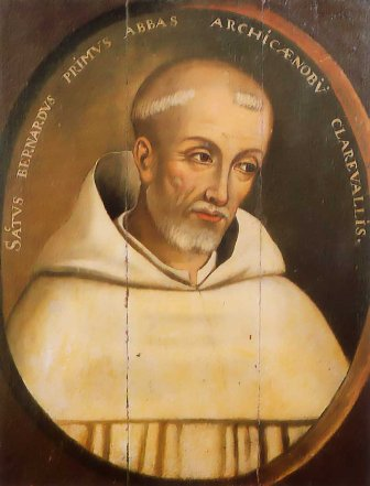 St Bernard of Clairvaux